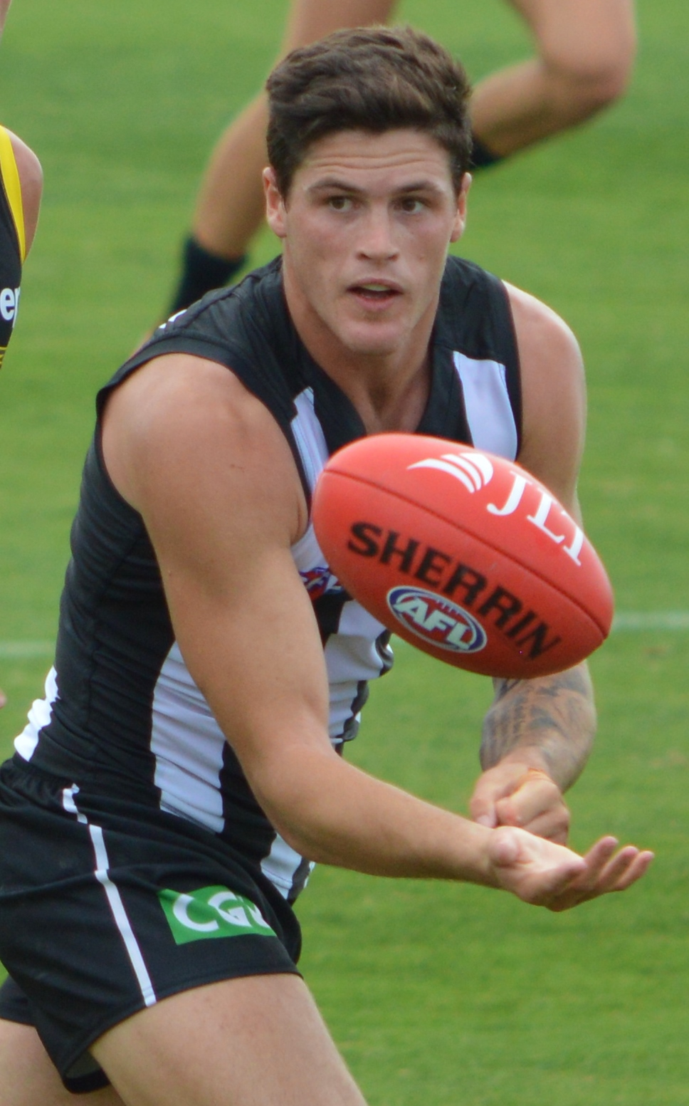 Jack Crisp during a pre-season match in March 2017